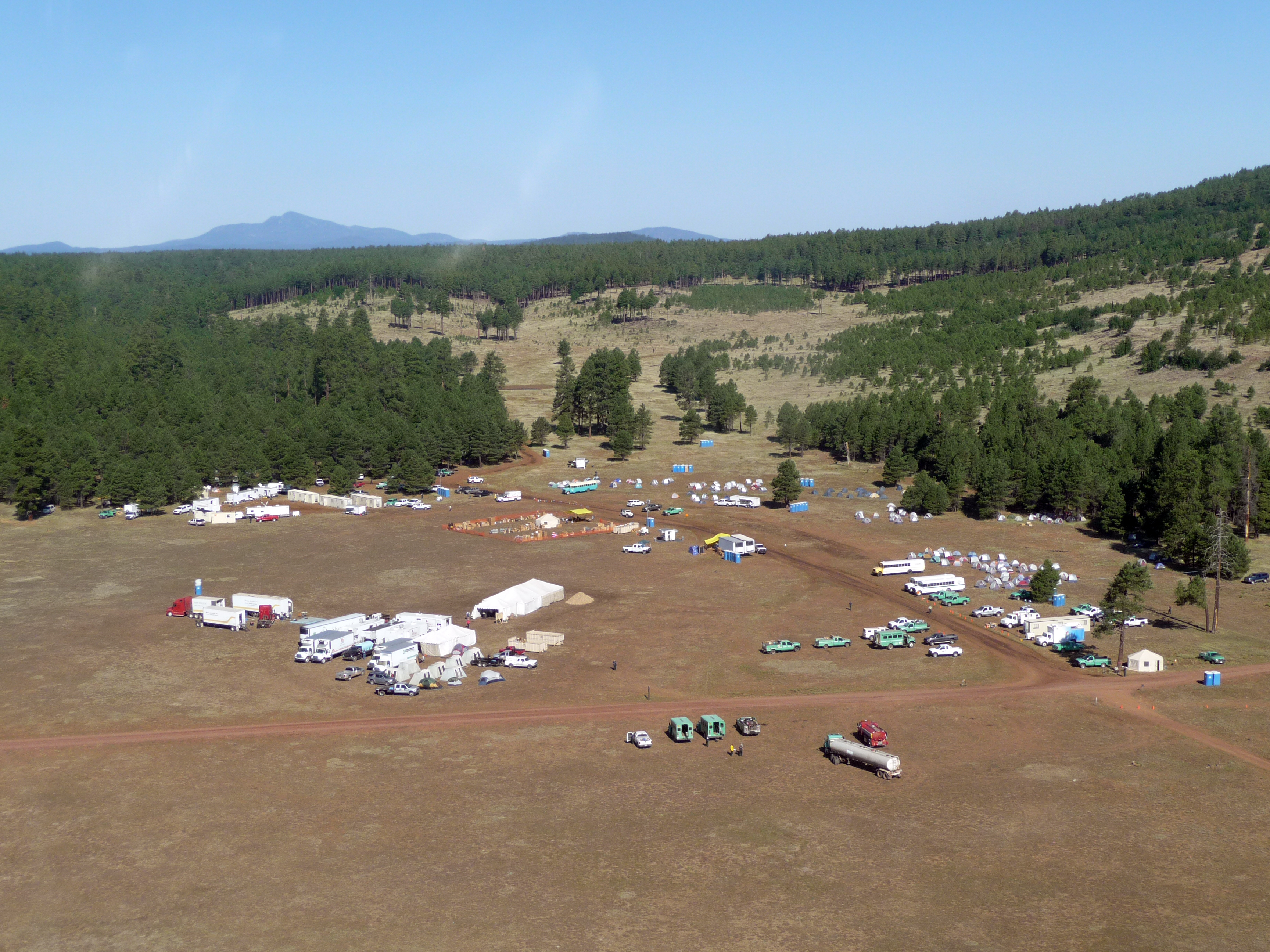 Taylor Fire camp operations, set up about 10 miles (16 km) north of the Taylor Fire. At peak, approximately 500 firefighters were assigned to fight this fire that grew to 3,500 acres. Credit: USDA Forest Service, Coconino National Forest.